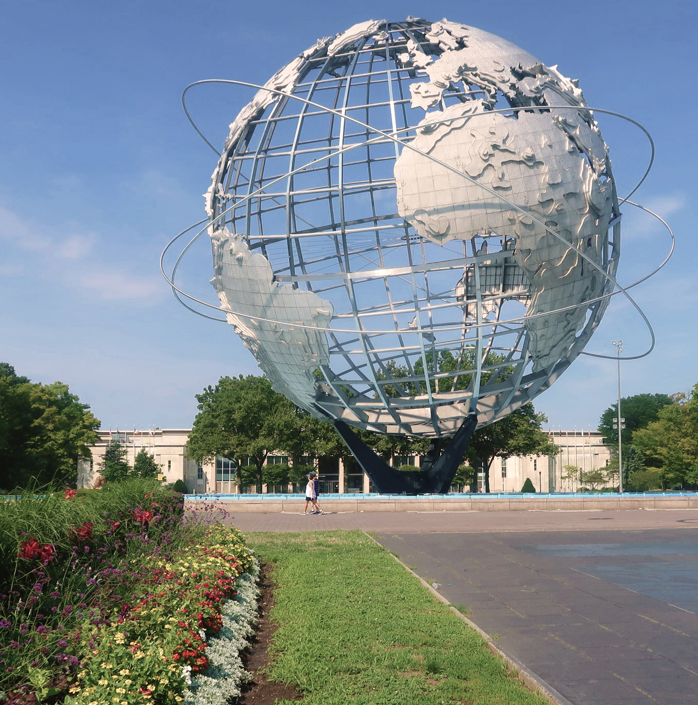 The Unisphere, Flushing Meadow Park, Queens, New York